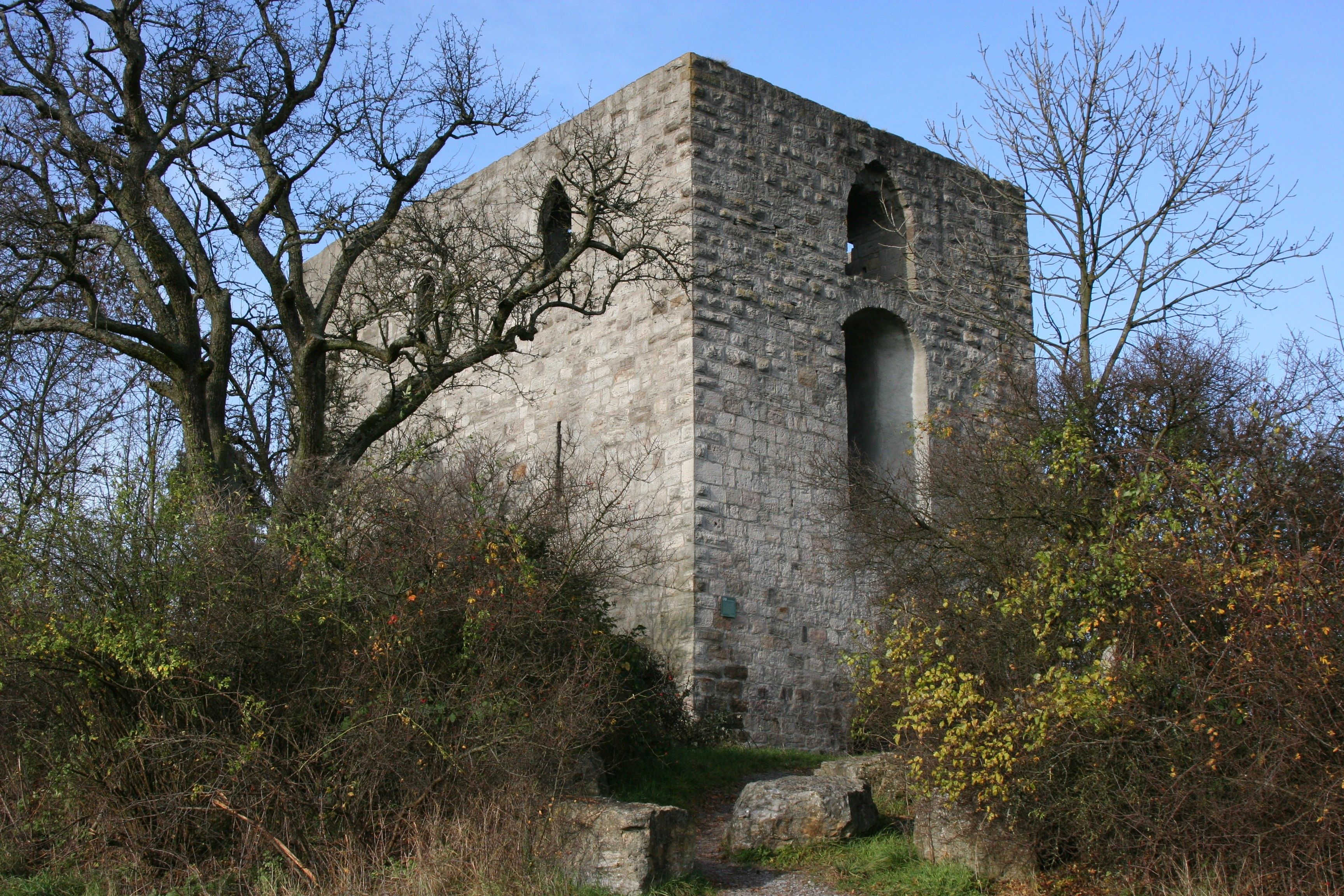 Helfenberg castle ruin in Ilsfeld-Helfenberg